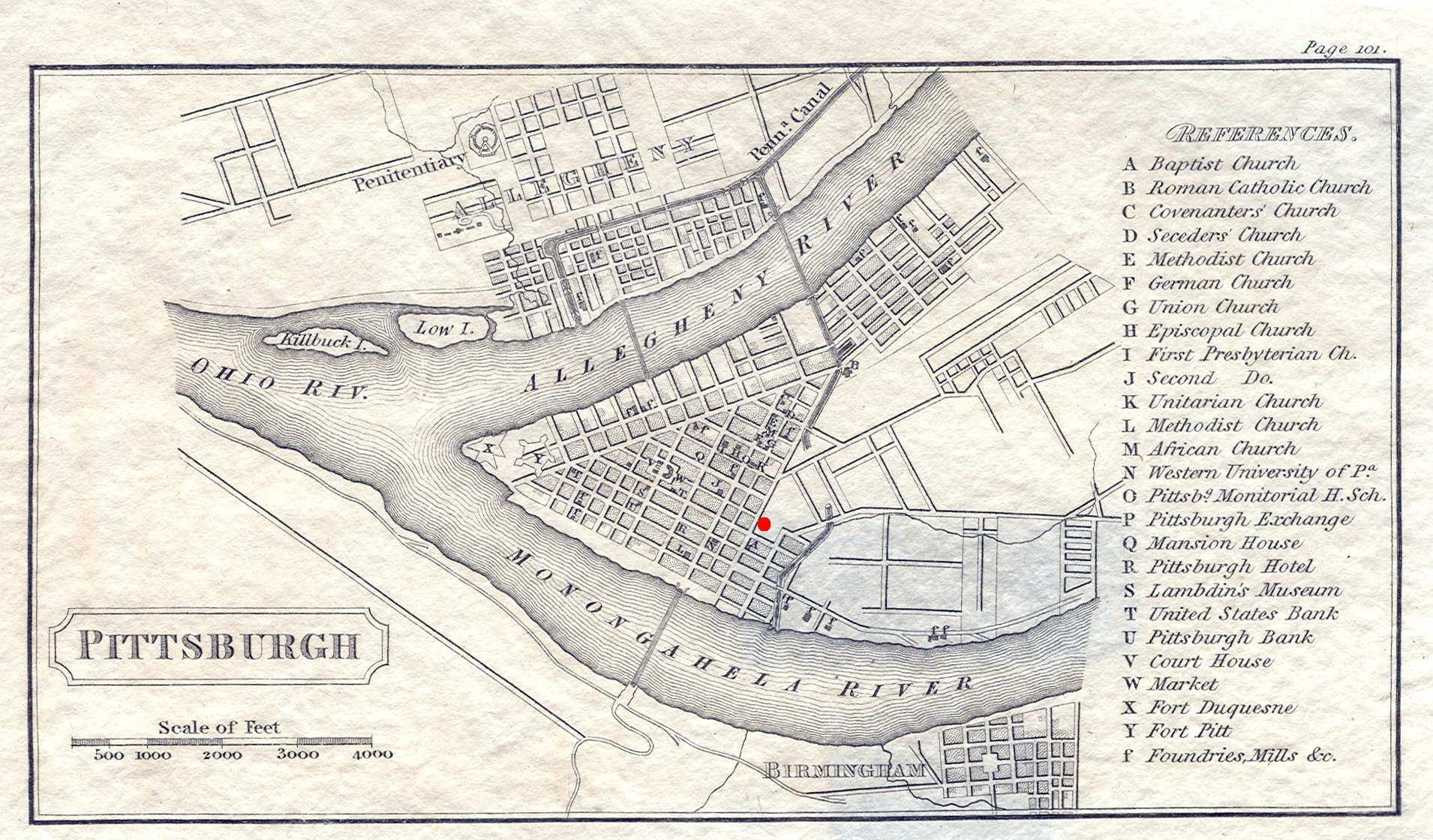 Map of Pittsburgh dated 1828